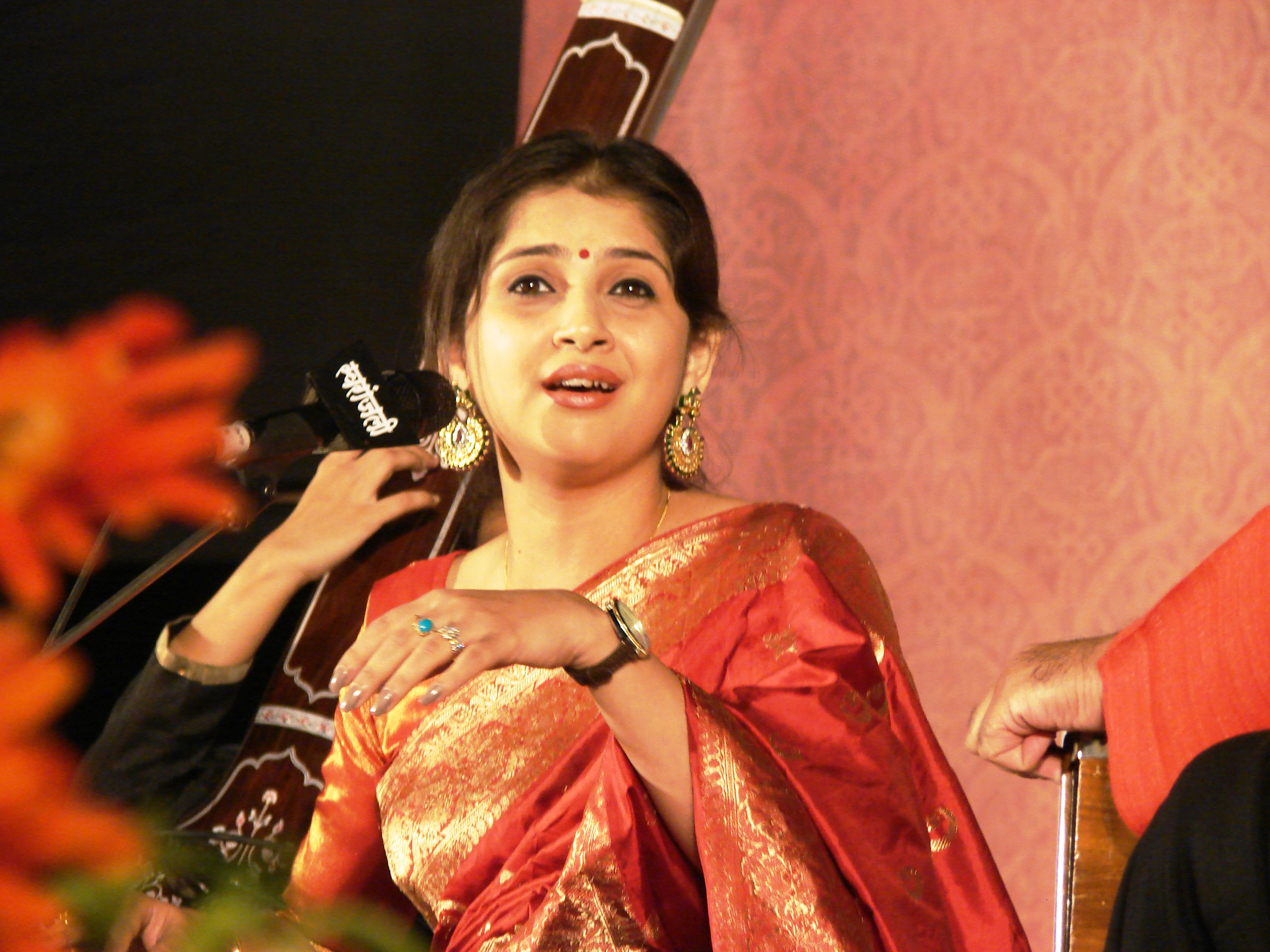 Kaushiki Chakrabarty performing in Swai Gandharva in 2013